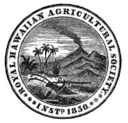 The seal of the Royal Hawaiian Agricultural Society. The group was founded in 1850 by American and British plantation owners.